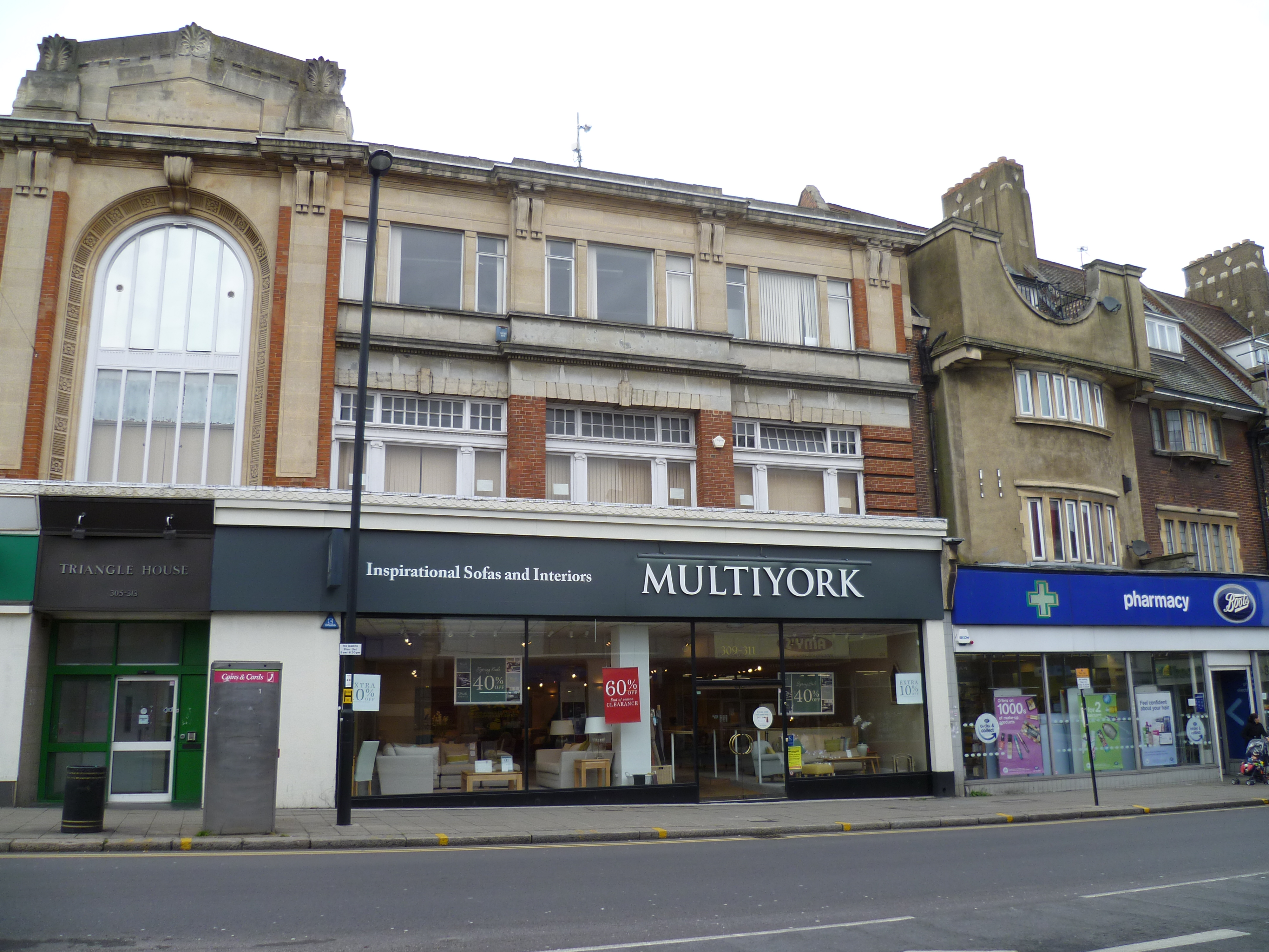 London